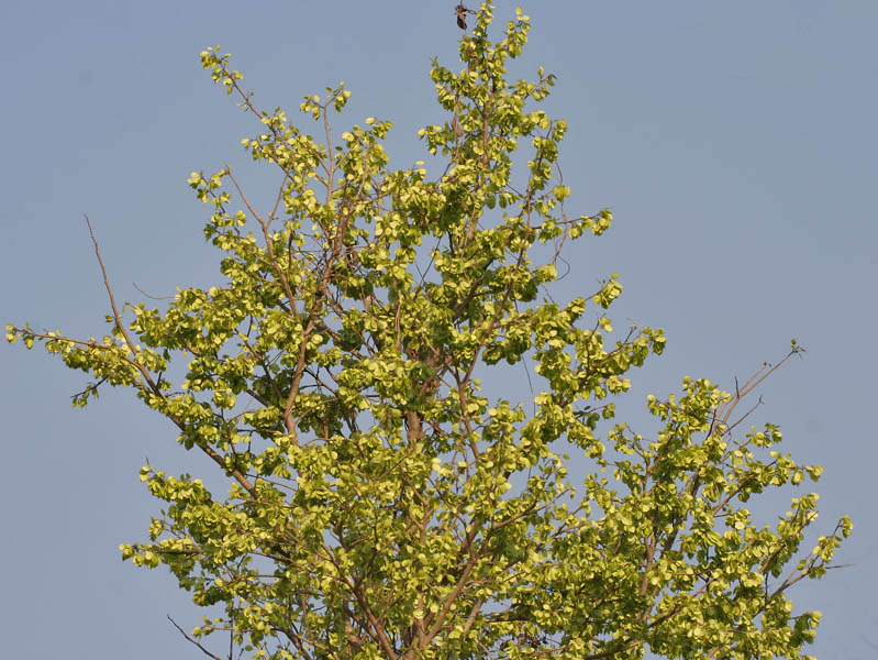 Kanju, Papdi, Karanji, Indian-elm, Waval, Wavala, Paapara, Paapari, Monekey Biscuit, Chirabilva, Papri, Banchilla, Chilbil, Dhamma, Begana, Vavli, Papara, Kanjho, Waola, Thapasi, Nemali, Pedanevilia, Aya, Ayil, Kanci, Vellaya, Thavasai, Rasbija, Kaladri, Nilavahi, Aval, Dauranja, Turuda, Rajain, Khulen, Arjan, Papar, Karanji, Chirol or Karanjalam Holoptelea integrifolia in Kinnerasani Wildlife Sanctuary, Andhra Pradesh, India.